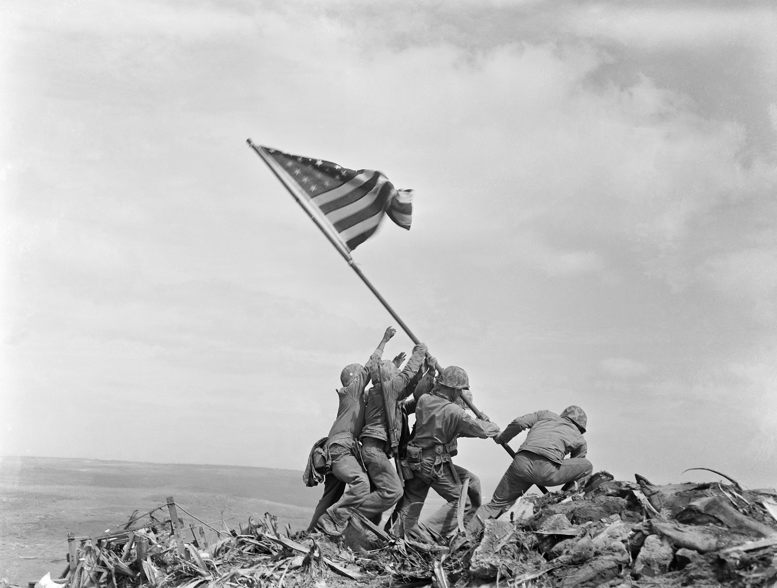 Raising the Flag on Iwo Jima, by Joe Rosenthal.